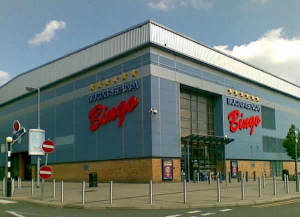 "Bingo" at Parrs Wood Not the only attraction here at this south Manchester leisure complex.